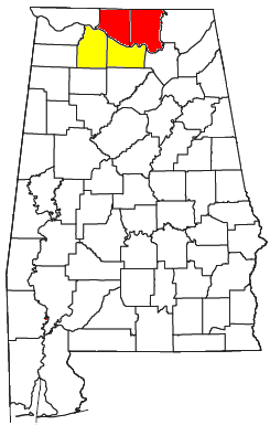 Locator map of the Huntsville-Decatur Combined Statistical Area in the northern part of the U.S. state of Alabama. The two components of the CSA are colored separately: Montgomery Metropolitan Statistical Area: red Decatur Metropolitan Statistical Area: yellow